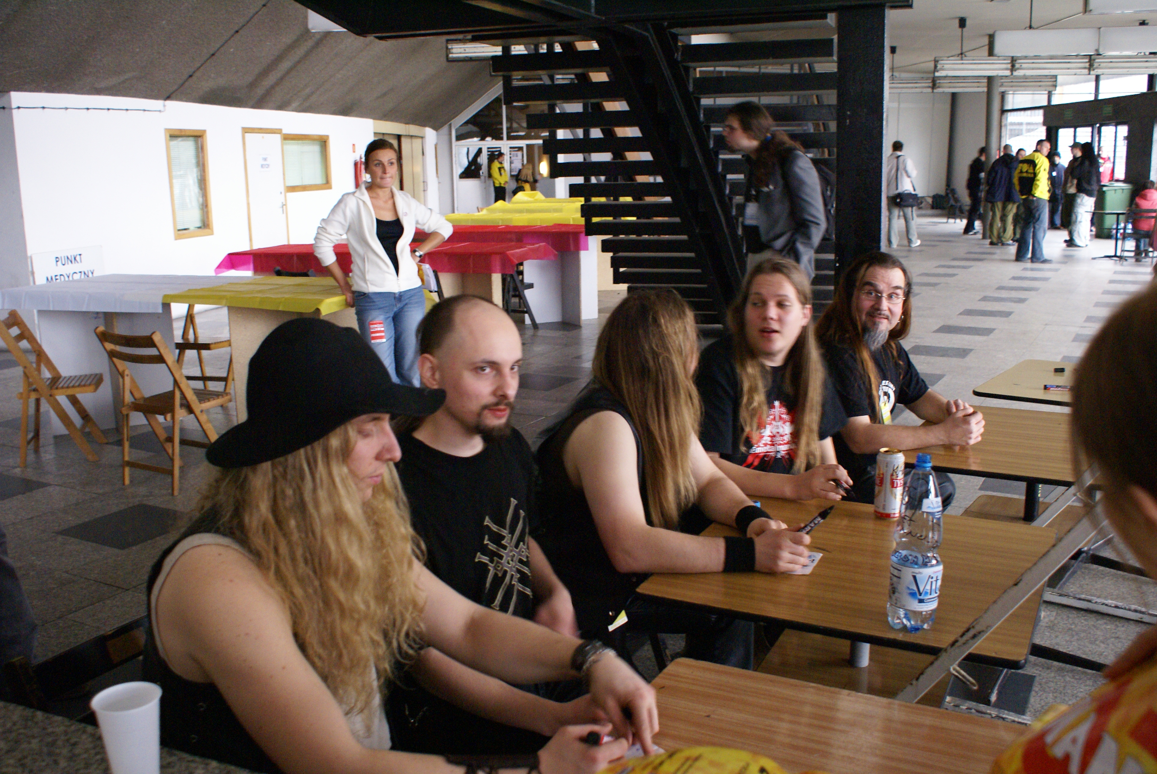 Metal band Korpiklaani during Metalmania 2007 festival